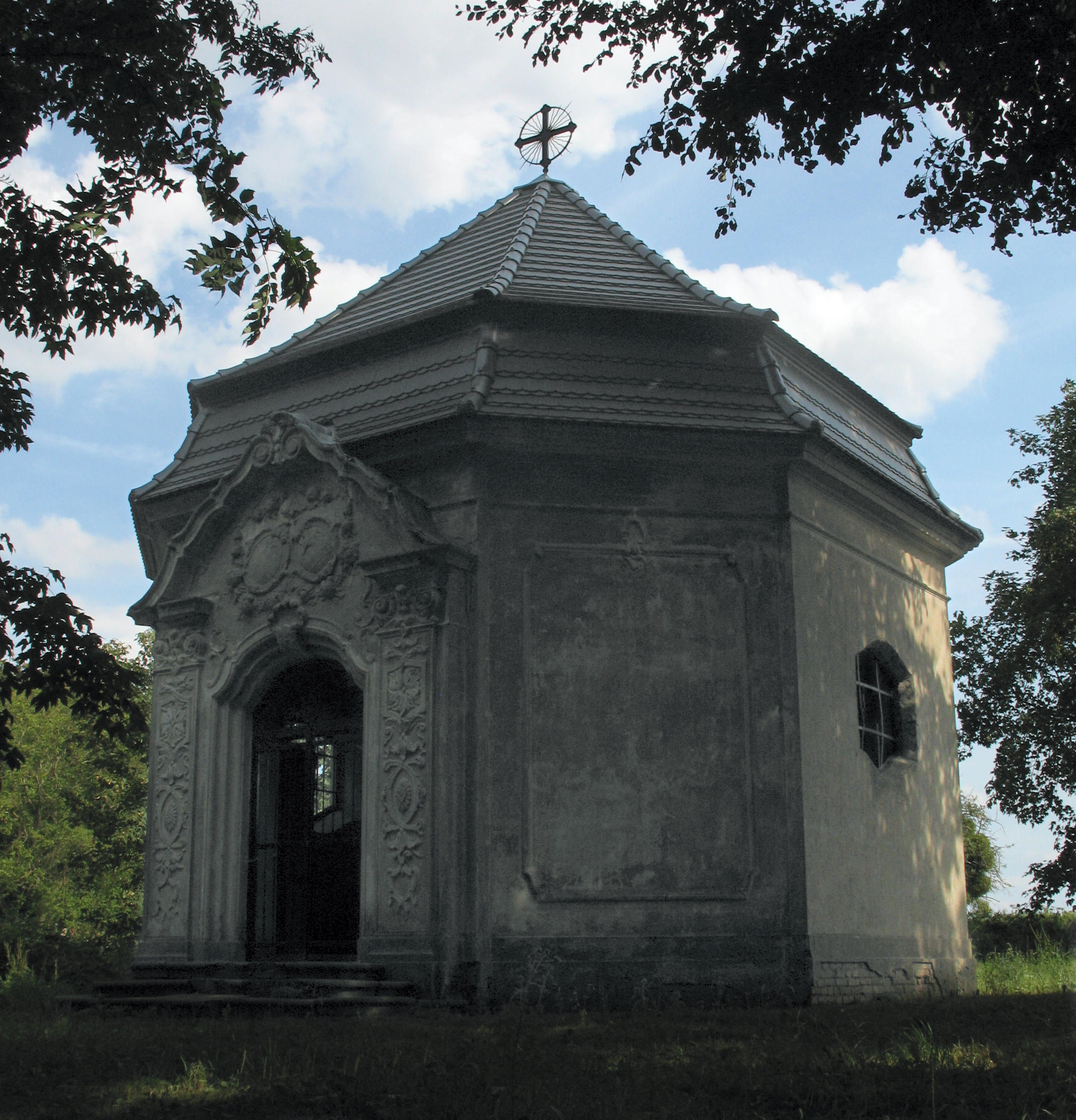 Chapel in Vollrathsruhe in Mecklenburg-Western Pomerania, Germany